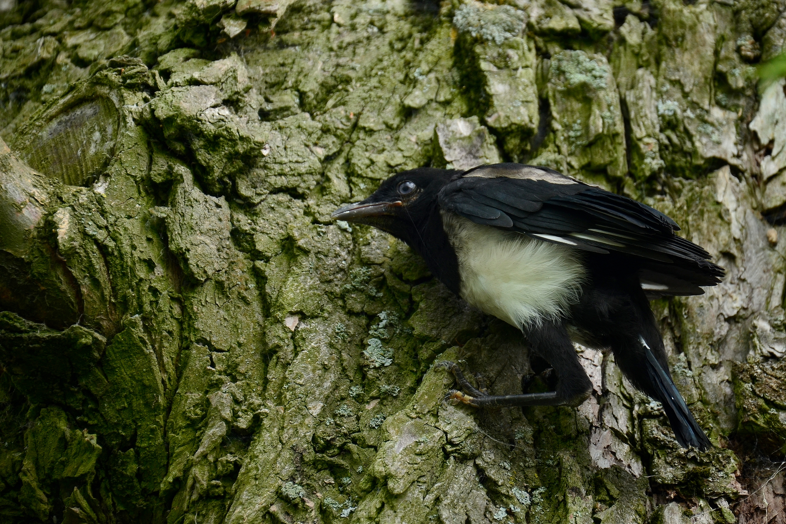 Young magpie